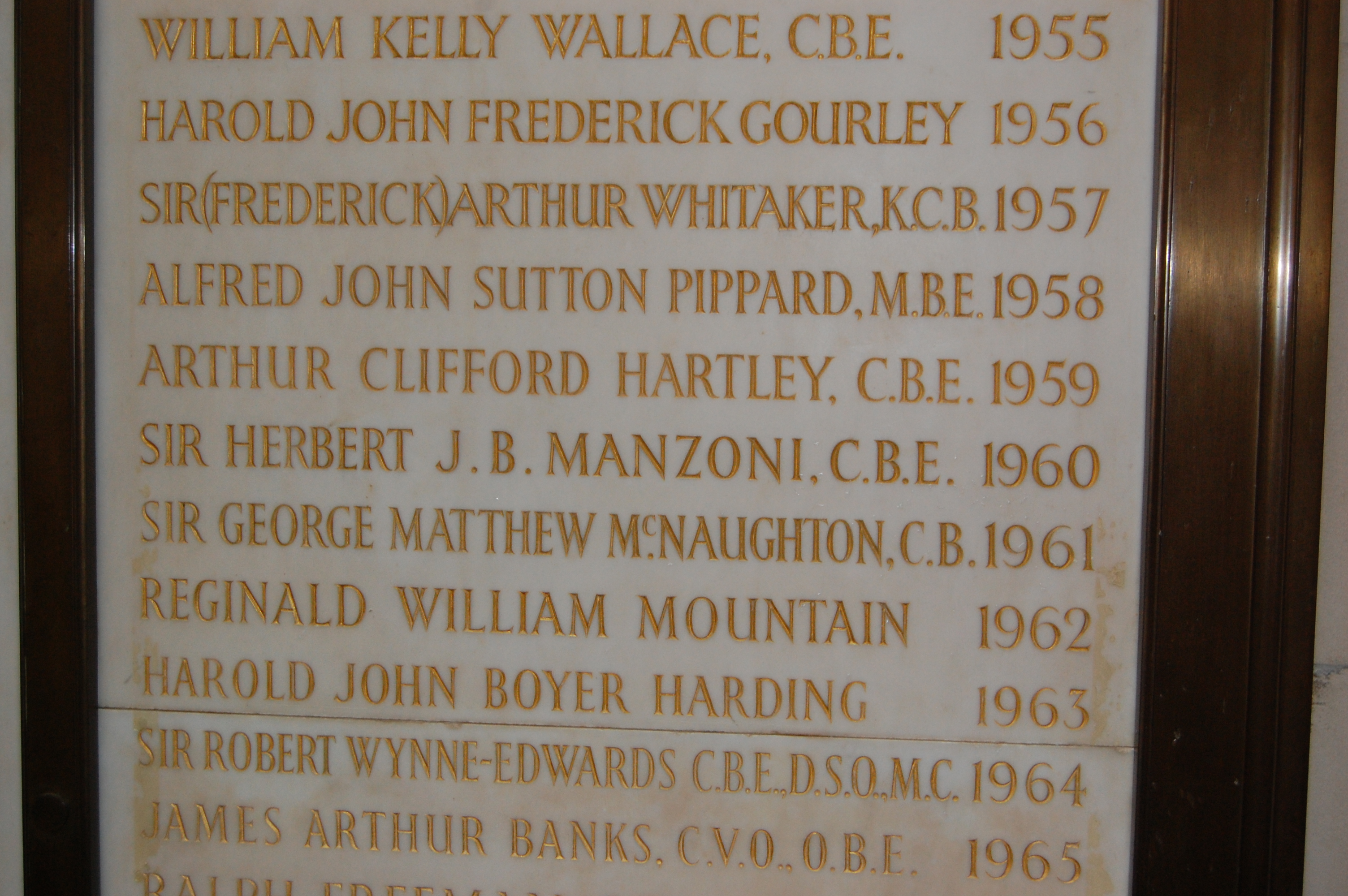 Section of the first of a pair of plaques listing past presidents of the Institution of Civil Engineers. The names shown cover 1955-1965. Taken at a Wikipedia editathon at the Institution of Civil Engineers, at their headquarters, One Great George Street, London.